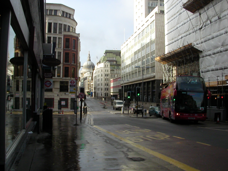 Cannon Street, London, looking west.